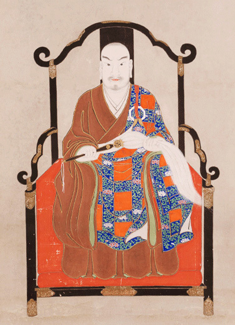 Portrait of Shimazu Takahisa (May 28, 1514 – July 15, 1571). He was the son of Shimazu Tadayoshi, a daimyō and the fifteenth head of the Shimazu clan during Japan's Sengoku period.